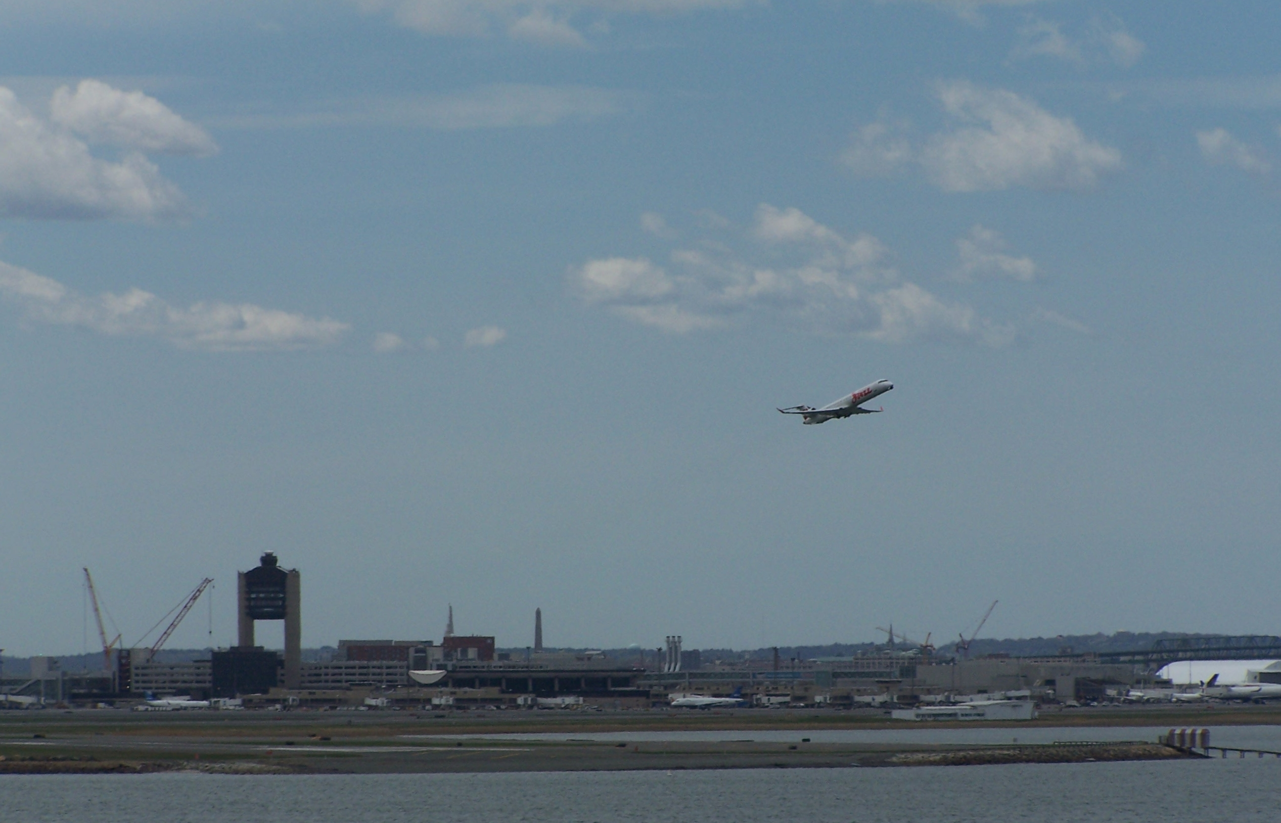 Logan International seen from Deer Island in Winthrop.